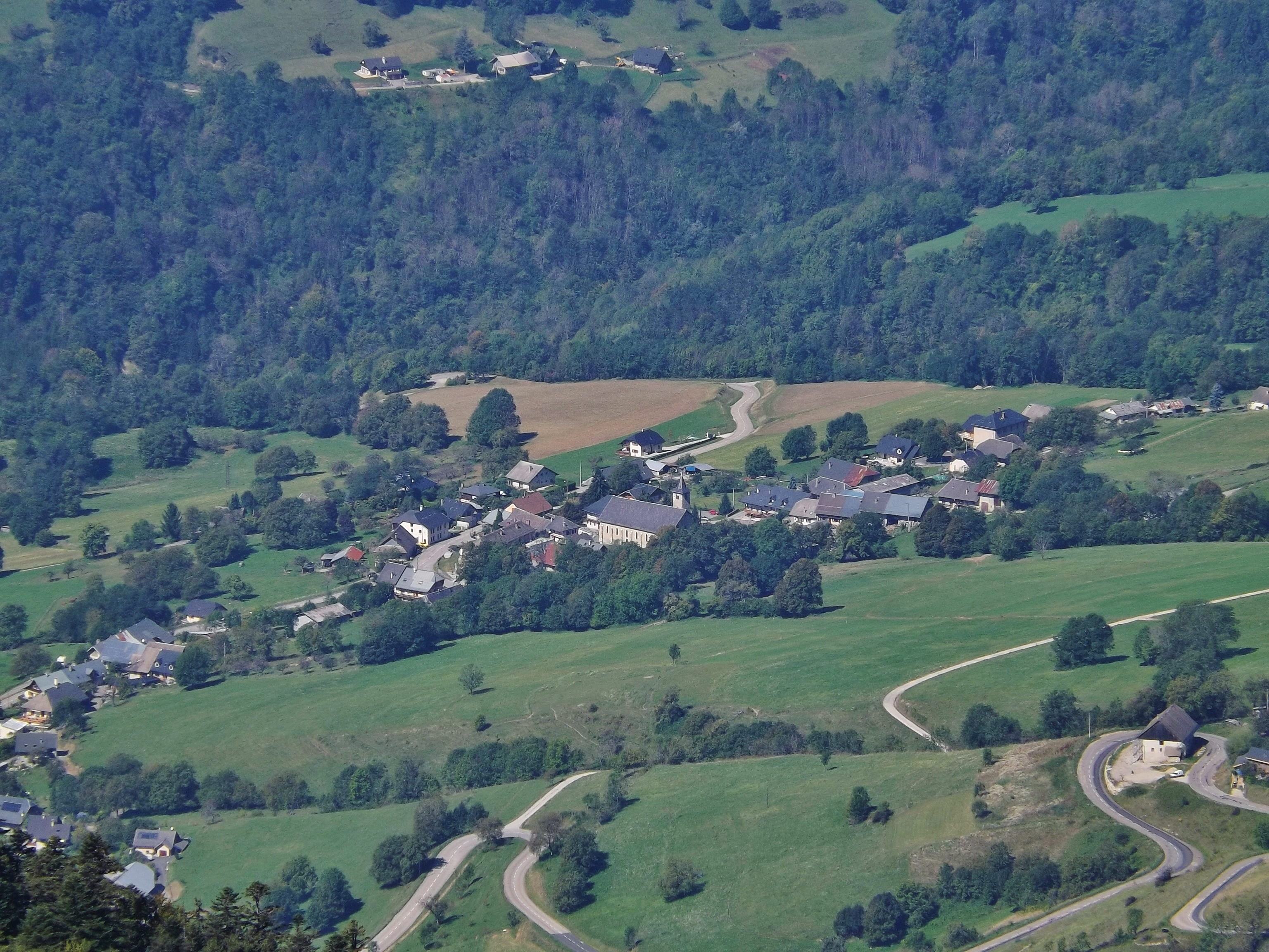 Aerian sight, from the Pointe de la Galoppaz mount, on the French village of Thoiry, in the Bauges mountains near Chambéry, in Savoie.